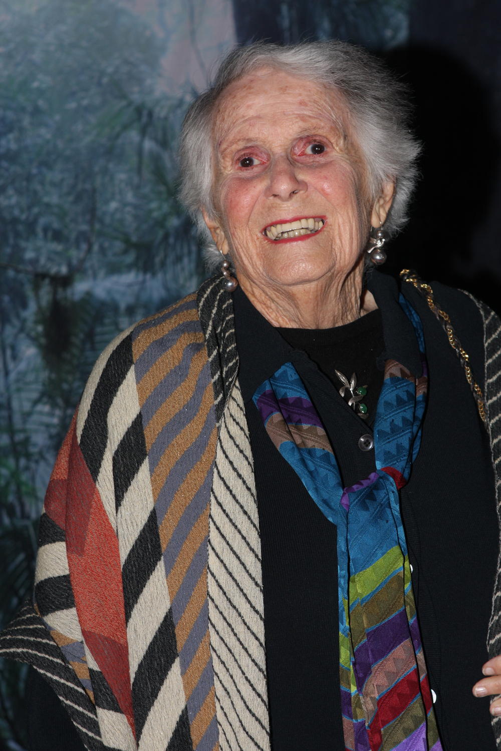 Margaret Fulton arrives at Cirque du Soleil's OVO opening night at The Entertainment Quarter on September 13, 2012 in Sydney, Australia